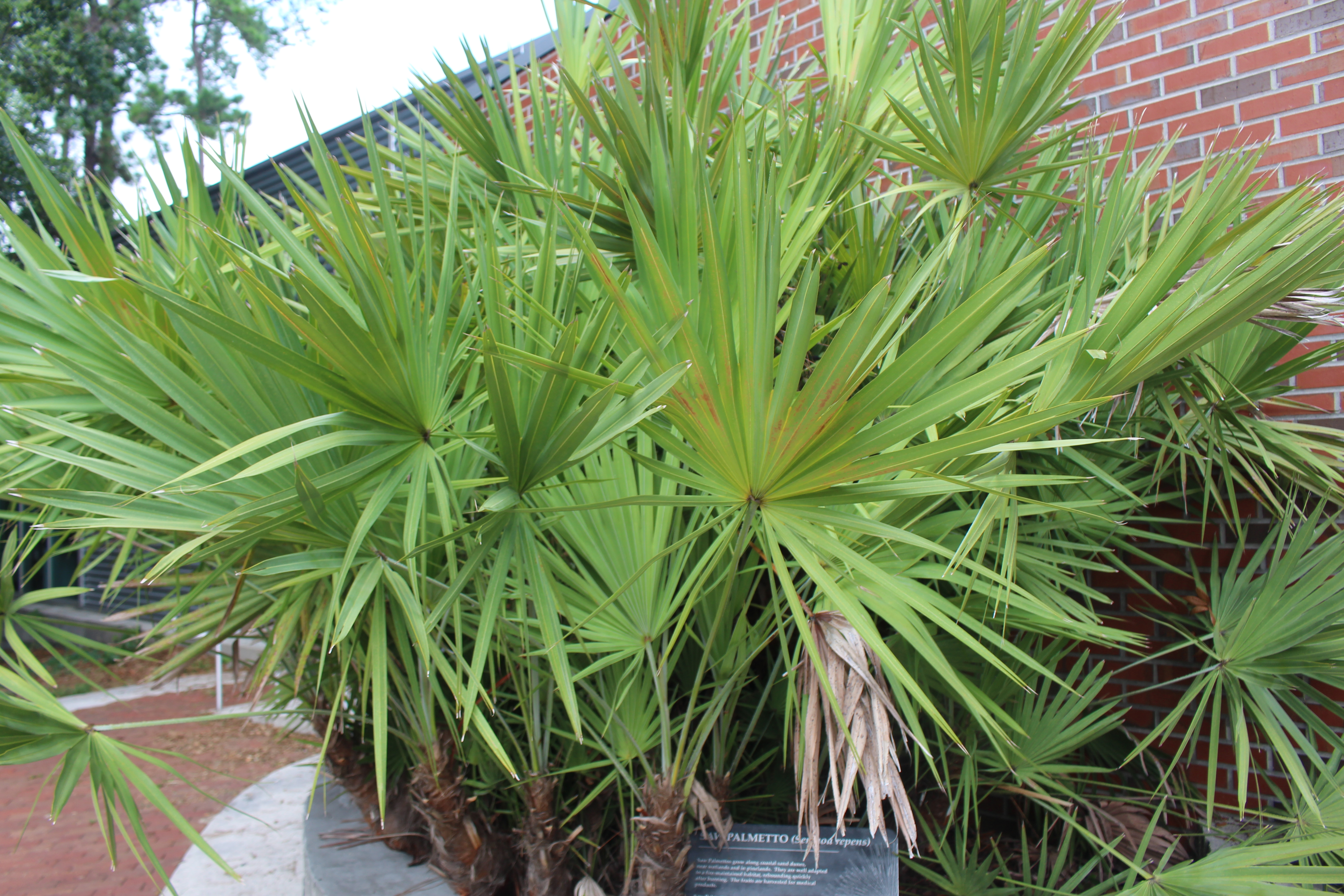 Florida Museum of Natural History, University of Florida, Gainesville, Alachua County, Florida